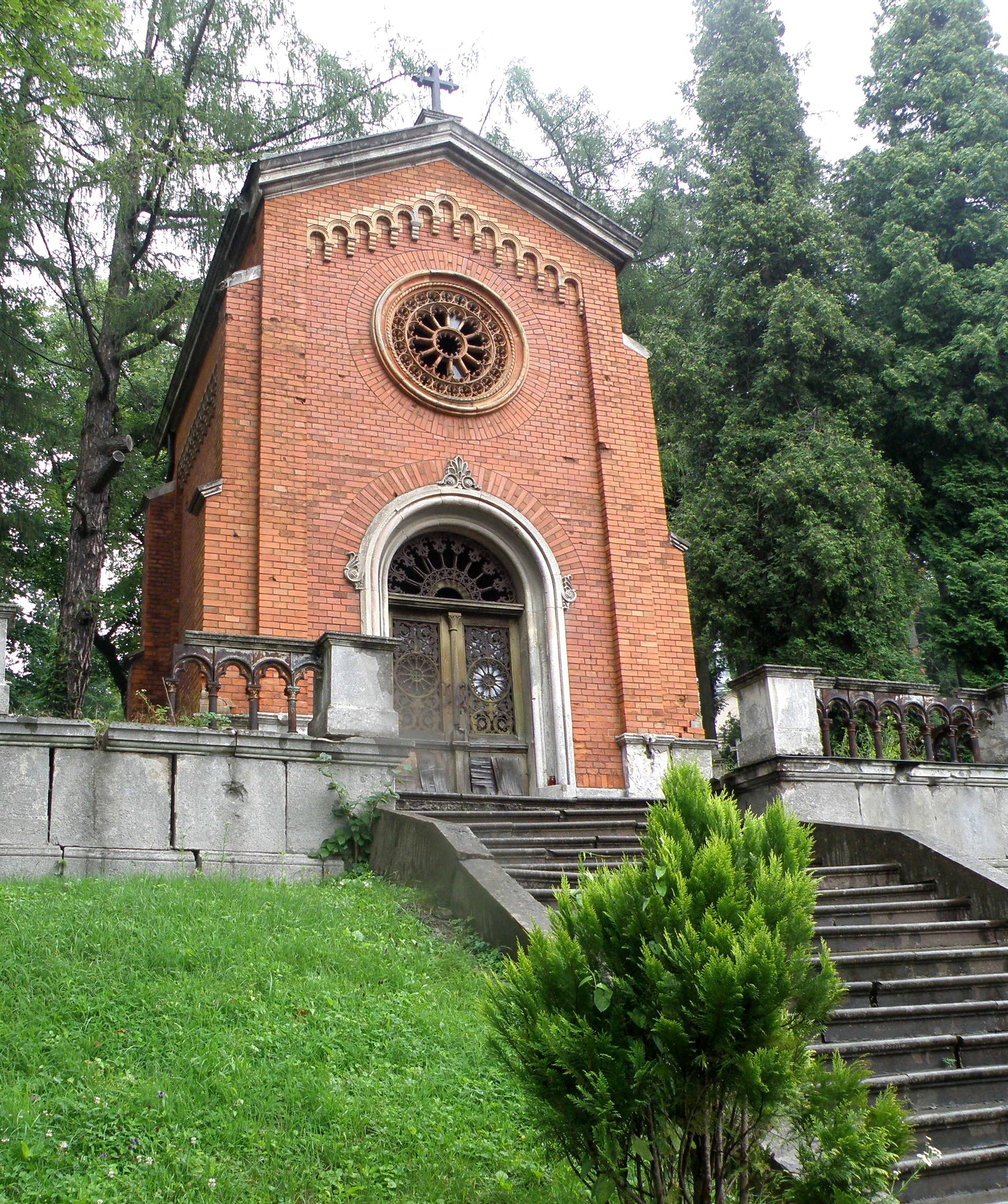 Lviv - Lychakiv Cemetery - Mausoleum of Krzeczunowicz Family